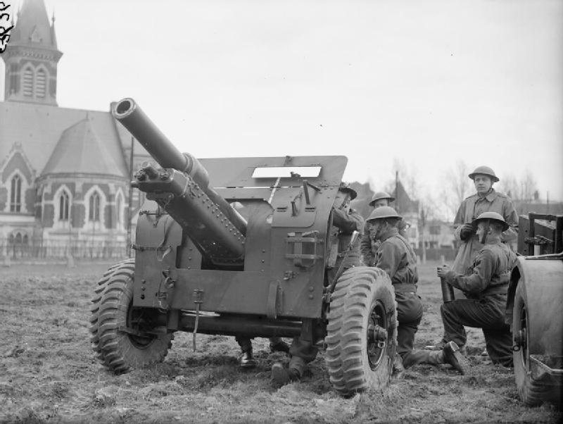 The British Army in France 1940 25-pdr Mk I, 10 April 1940.